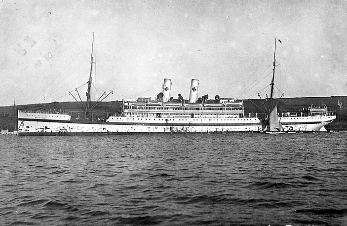 SS Red Cross, the former SS Hamburg of the North German Lloyd line, at Falmouth, c. 1914.